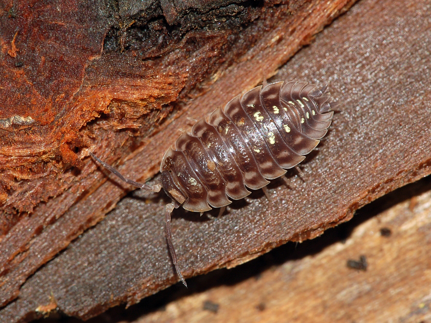 Oniscus asellus, Nied, Frankfurt/Main, Germany